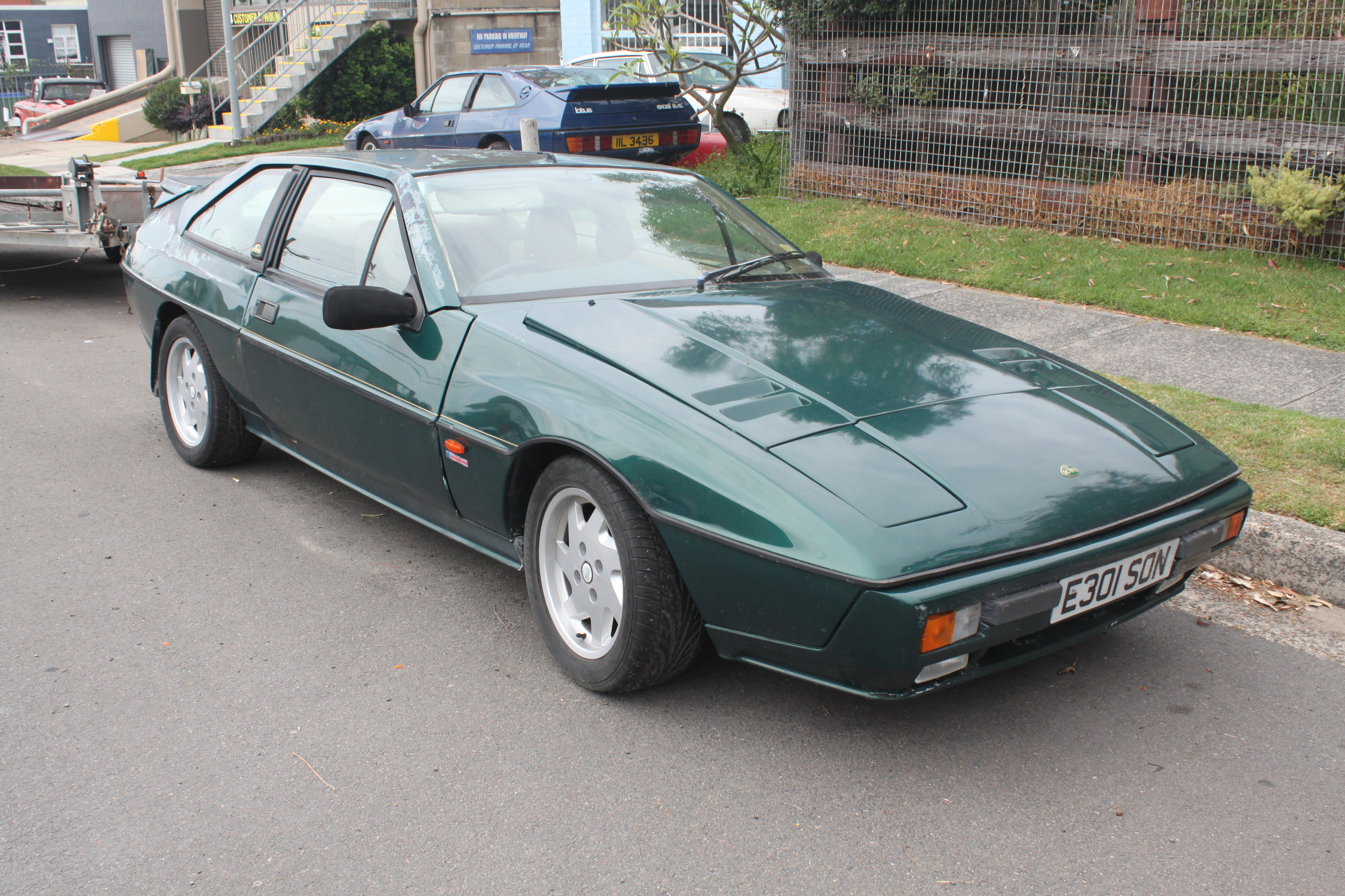 Lotus Excel SE, photographed in Sydney, New South Wales, Australia. Vehicle registration enquiry results (UK DVLA): Date of first registration: 20 October 1987 Year of manufacture: 1987 Cylinder capacity (cc): 2174cc